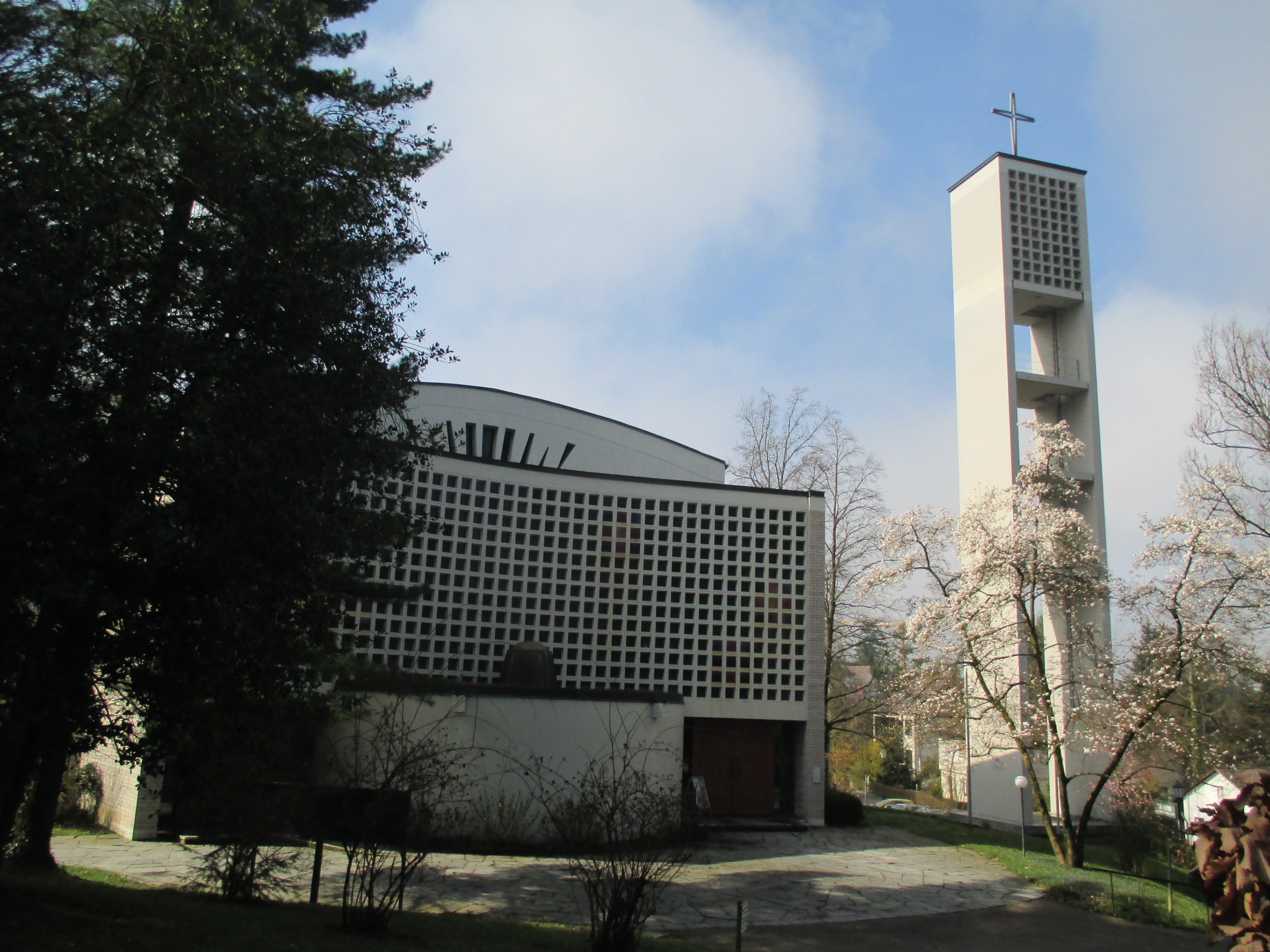 Catholic Church Badenweiler (April 2015), Direction South